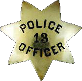 A badge of the Oakland Police Department (OPD), with badge number "13".